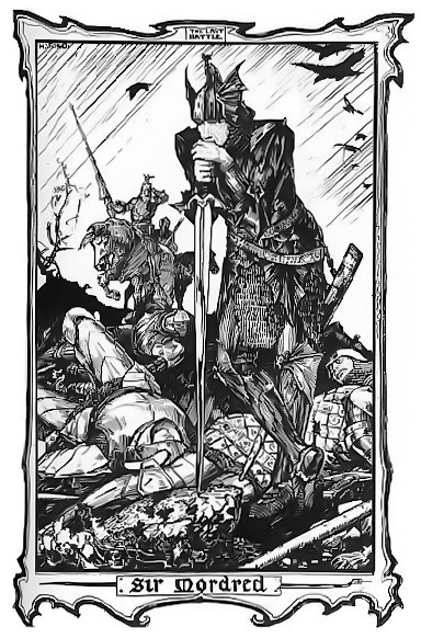 "Sir Mordred — The Last Battle", from The Book of Romance, edited by Andrew Lang. New York: Longmans, Green and Co., 1902.